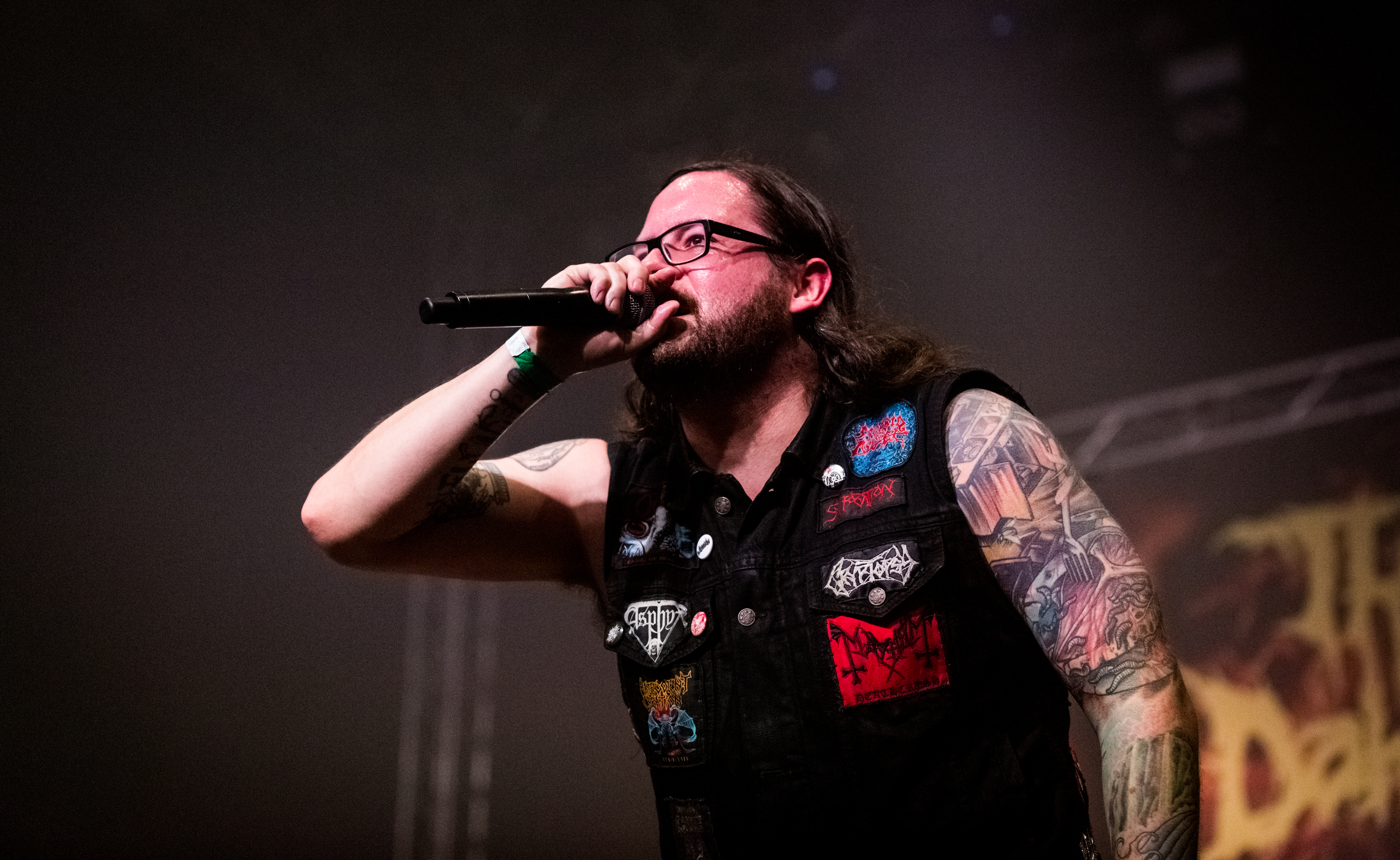 The Black Dahlia Murder - Wacken Open Aire 2016